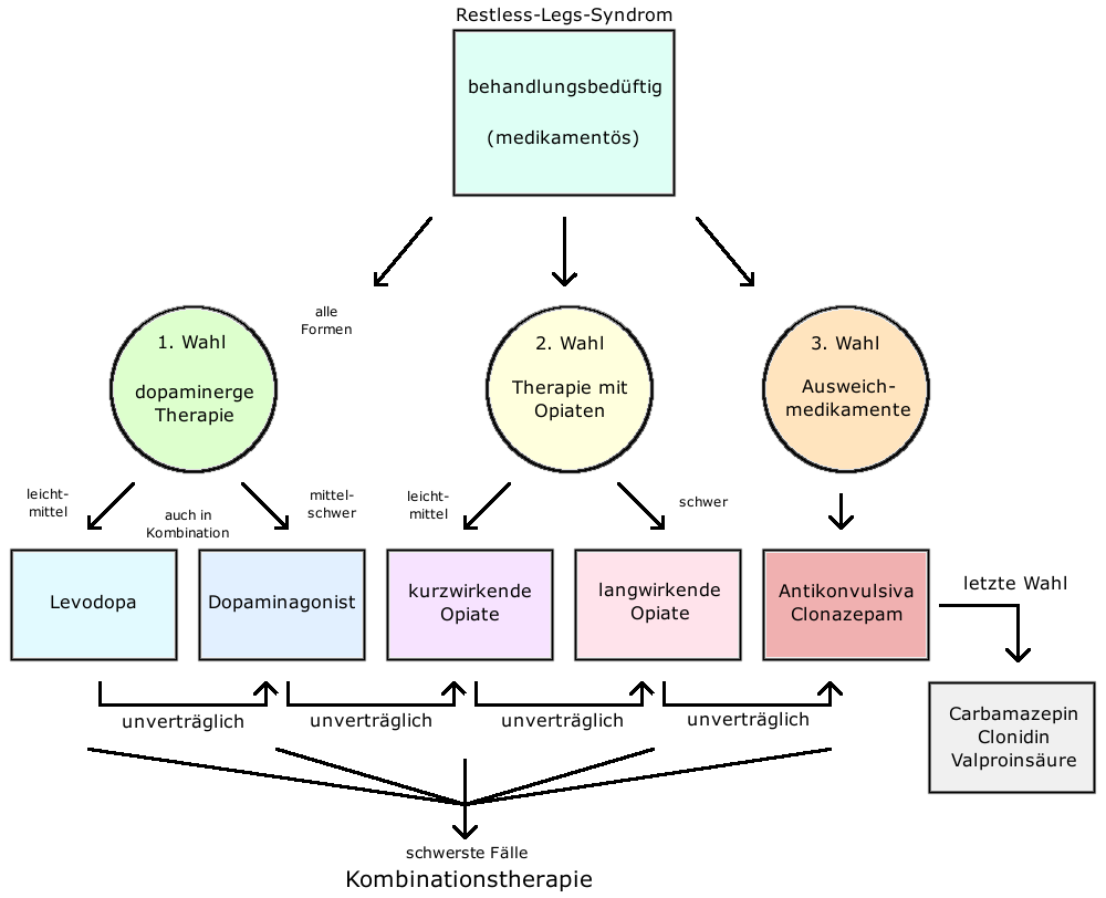 Behandlungsschema für das Restless-Legs-Syndrom. Stand: 4. Quartal 2005. Selbsterstellt. Overview over possible treatments of RLS symptoms (in 2005). Own Work.